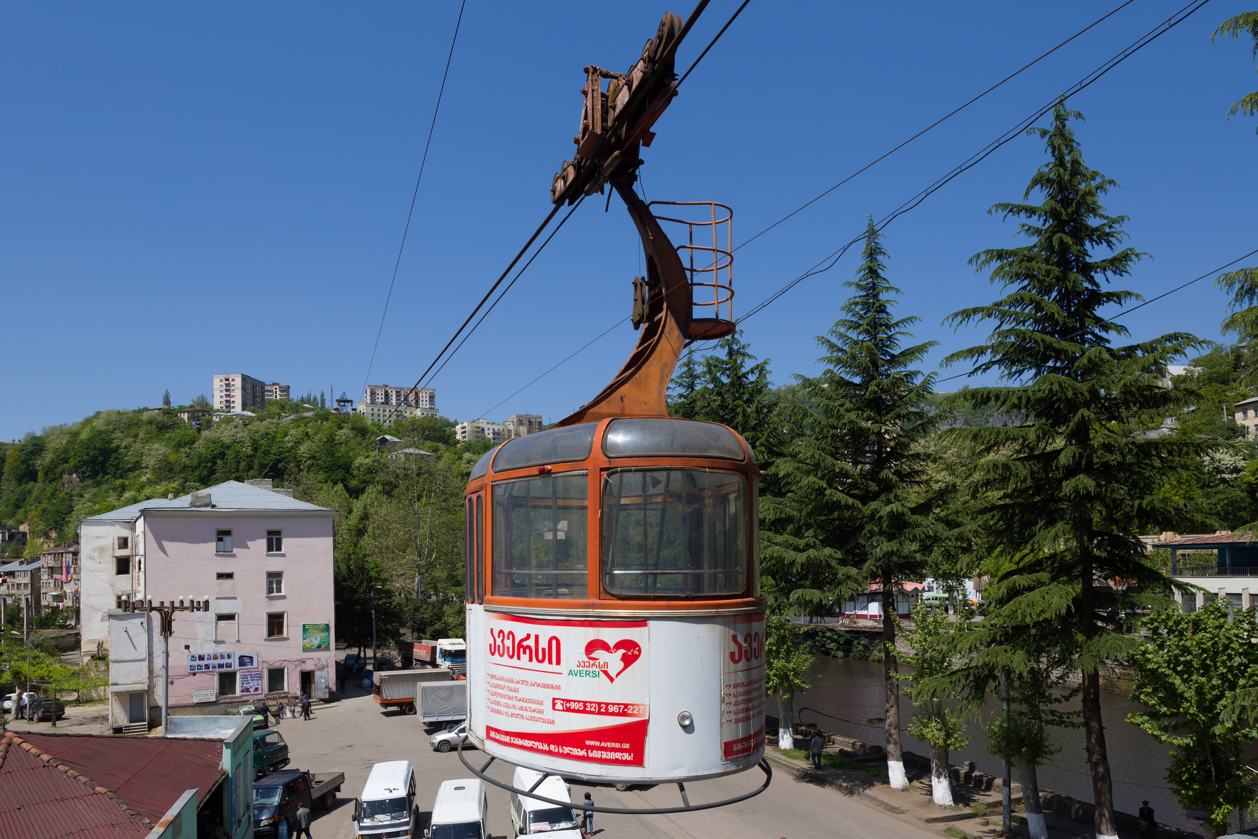 Cable Car in Chiatura, Georgia.